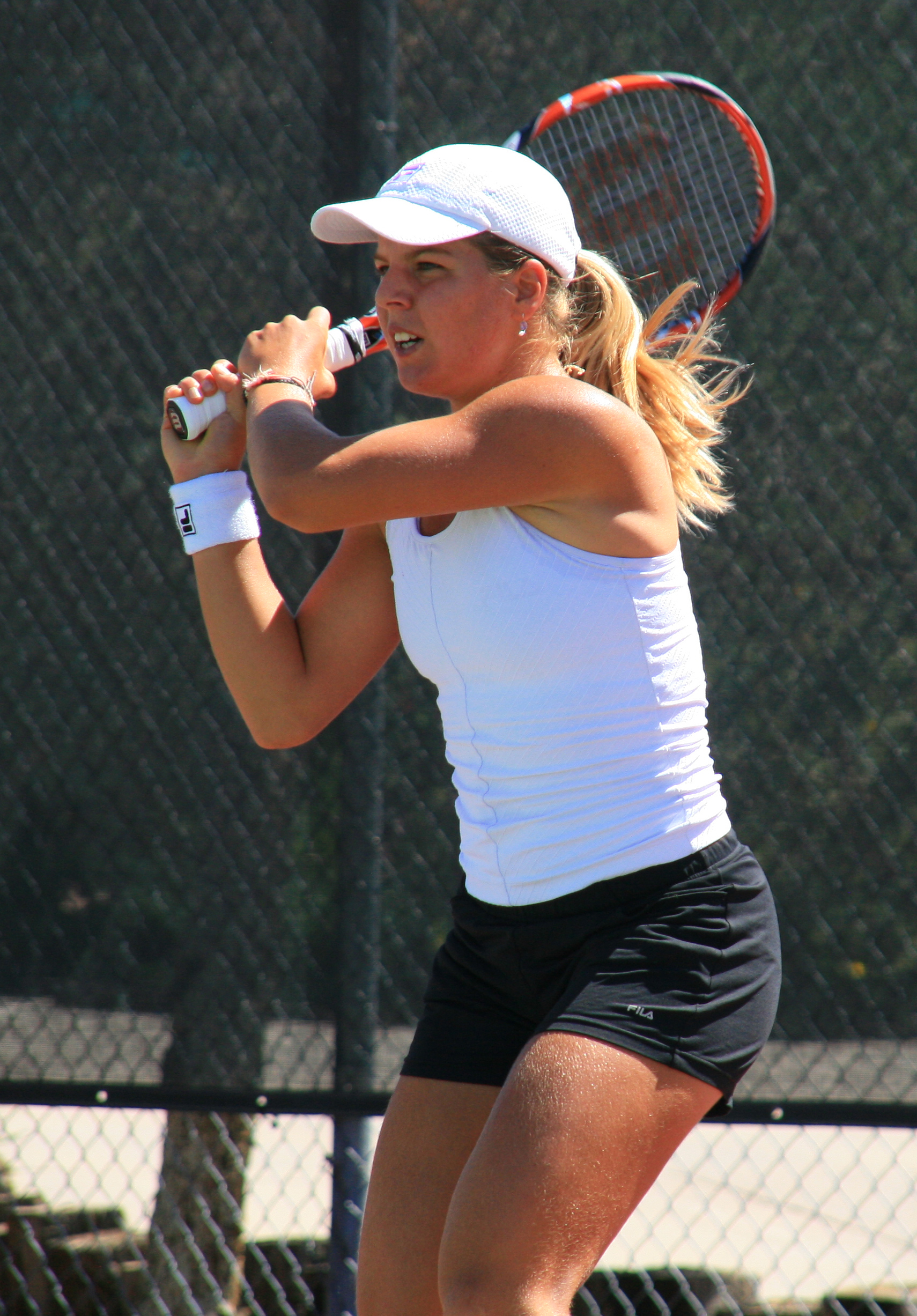 Anna Tatishvili at the Coleman Vision Tennis Championship in Albuquerque, New Mexico.